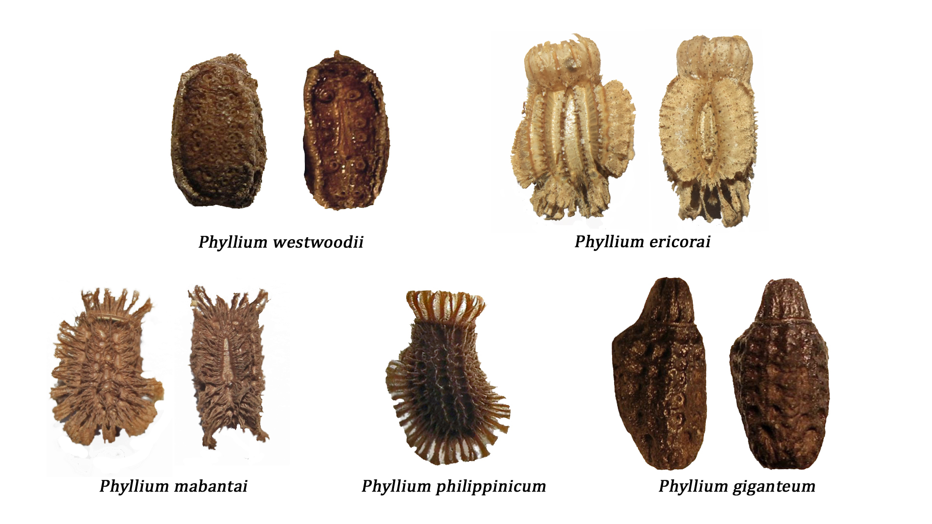 eggs of 5 Phyllium species (Phyllium westwoodii - lateral and dorsal view; Phyllium ericorai (white egg) - lateral and dorsal view; Phyllium mabantai - lateral and dorsal view; Phyllium philippinicum - lateral view; Phyllium giganteum - lateral and ventral view)